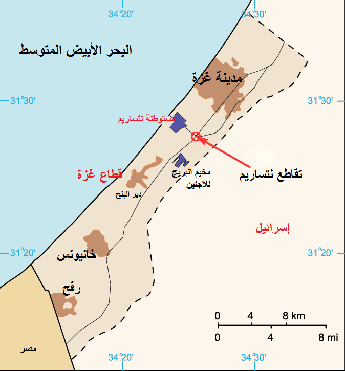 Netzarim junction map arabic